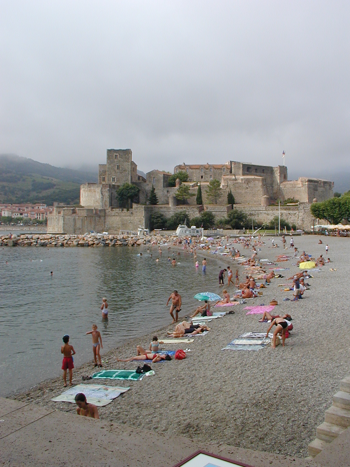 Royal castle of Cotlliue